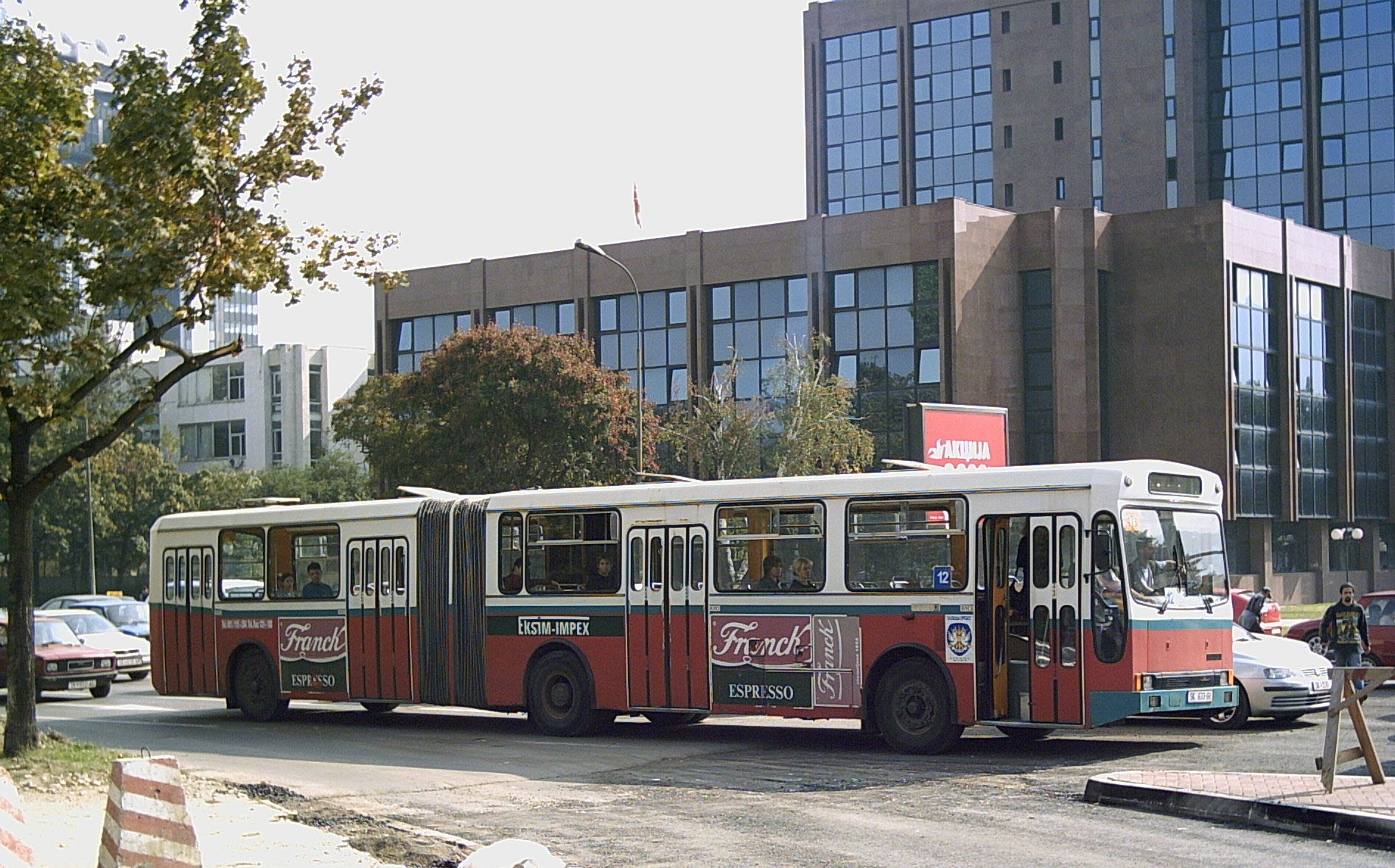 Justice Palace, Skopje, Macedonia. Ikarus IK-160 bus in front.